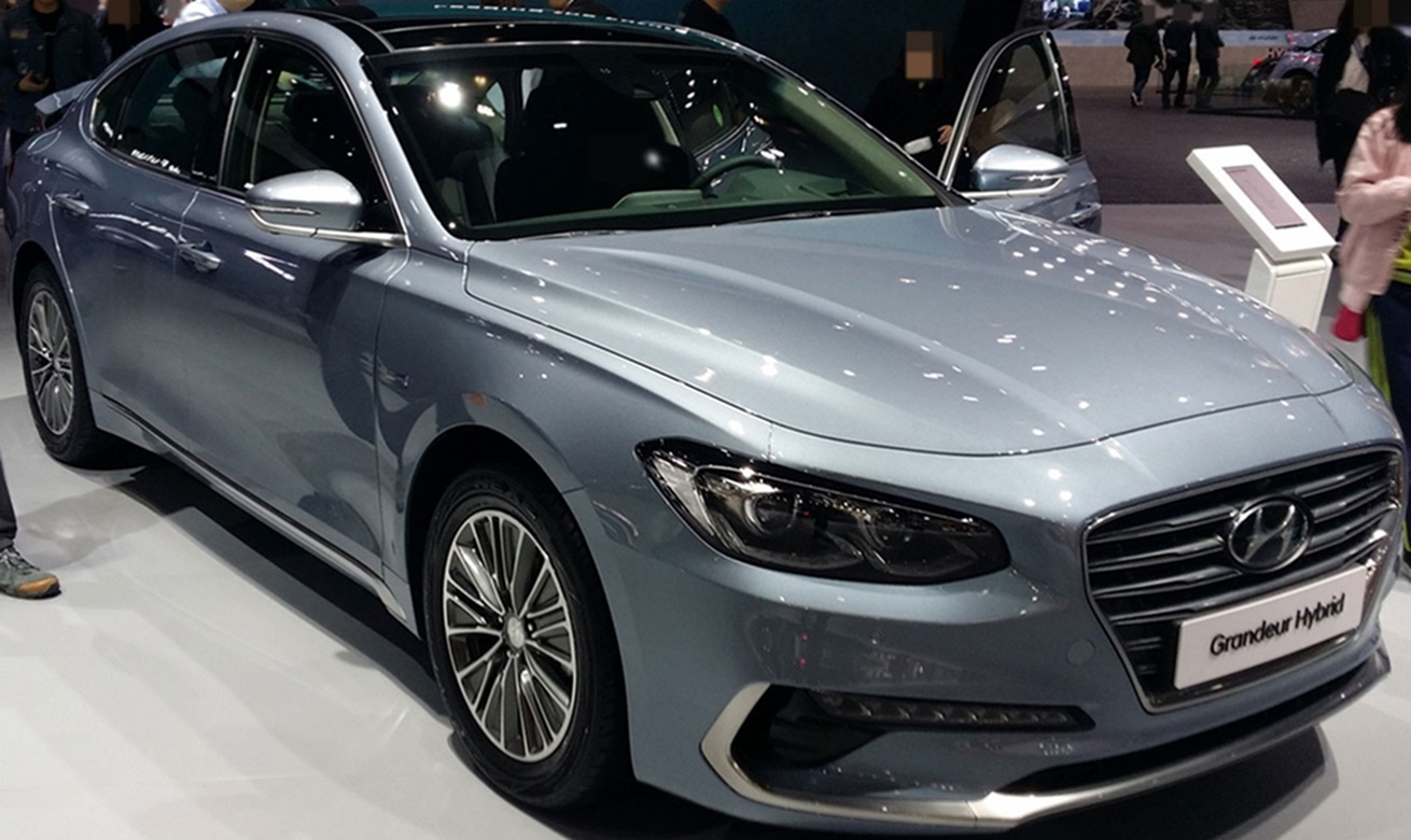 Hyundai Grandeur Hybrid